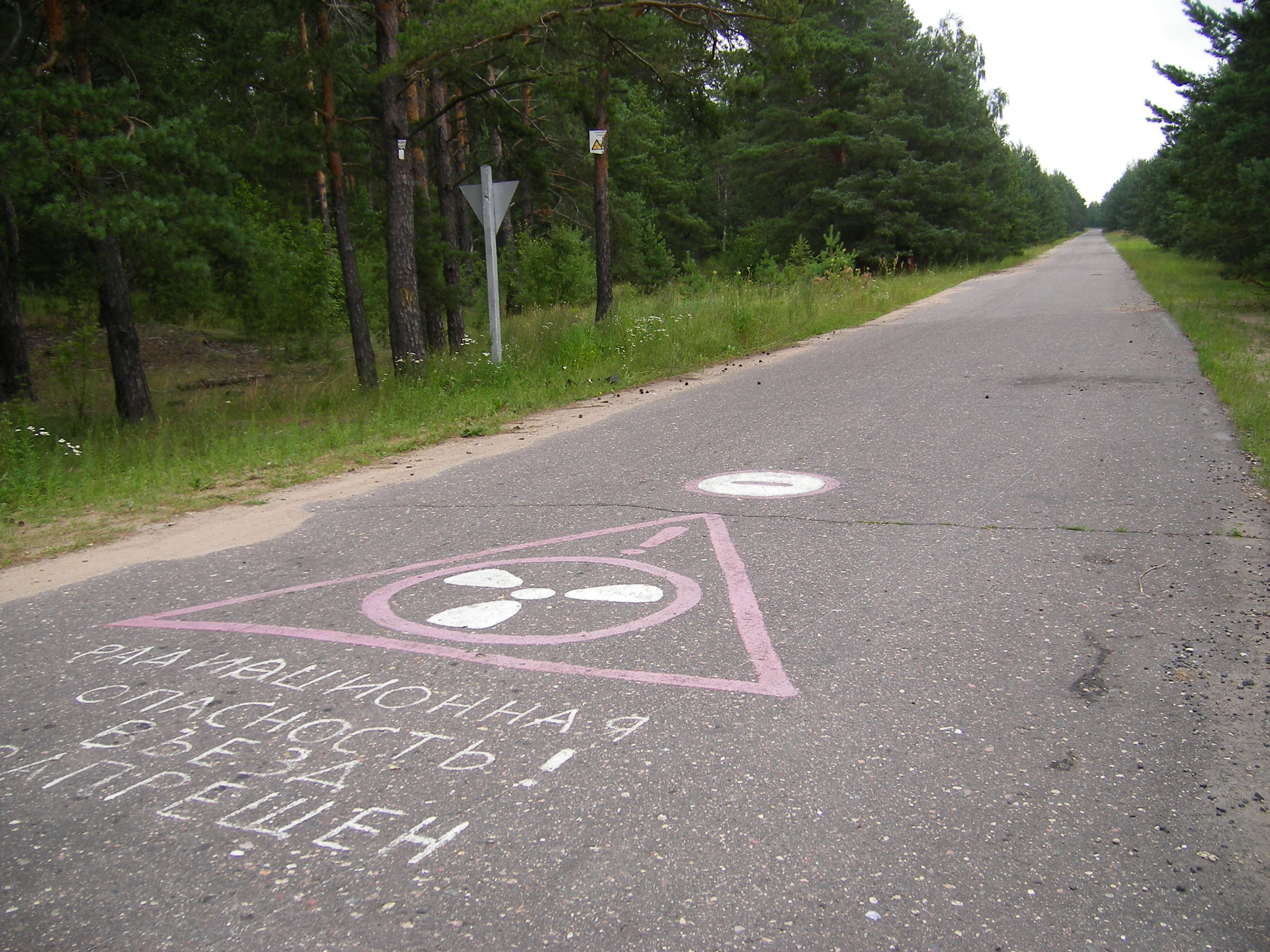 Closed (radioactive) area in Vetka district